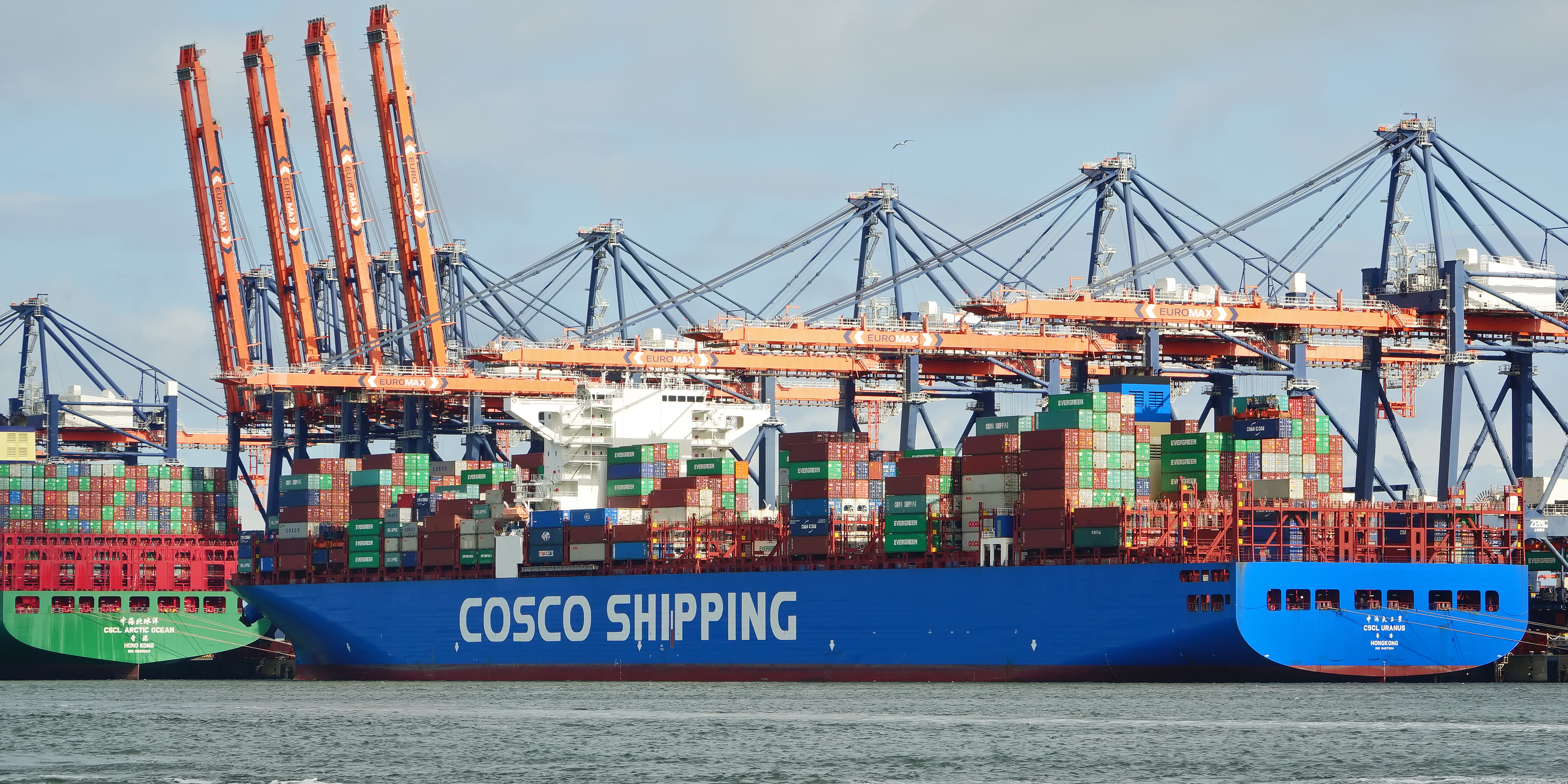 Euromax terminal Yangtzehaven 30-7-2017